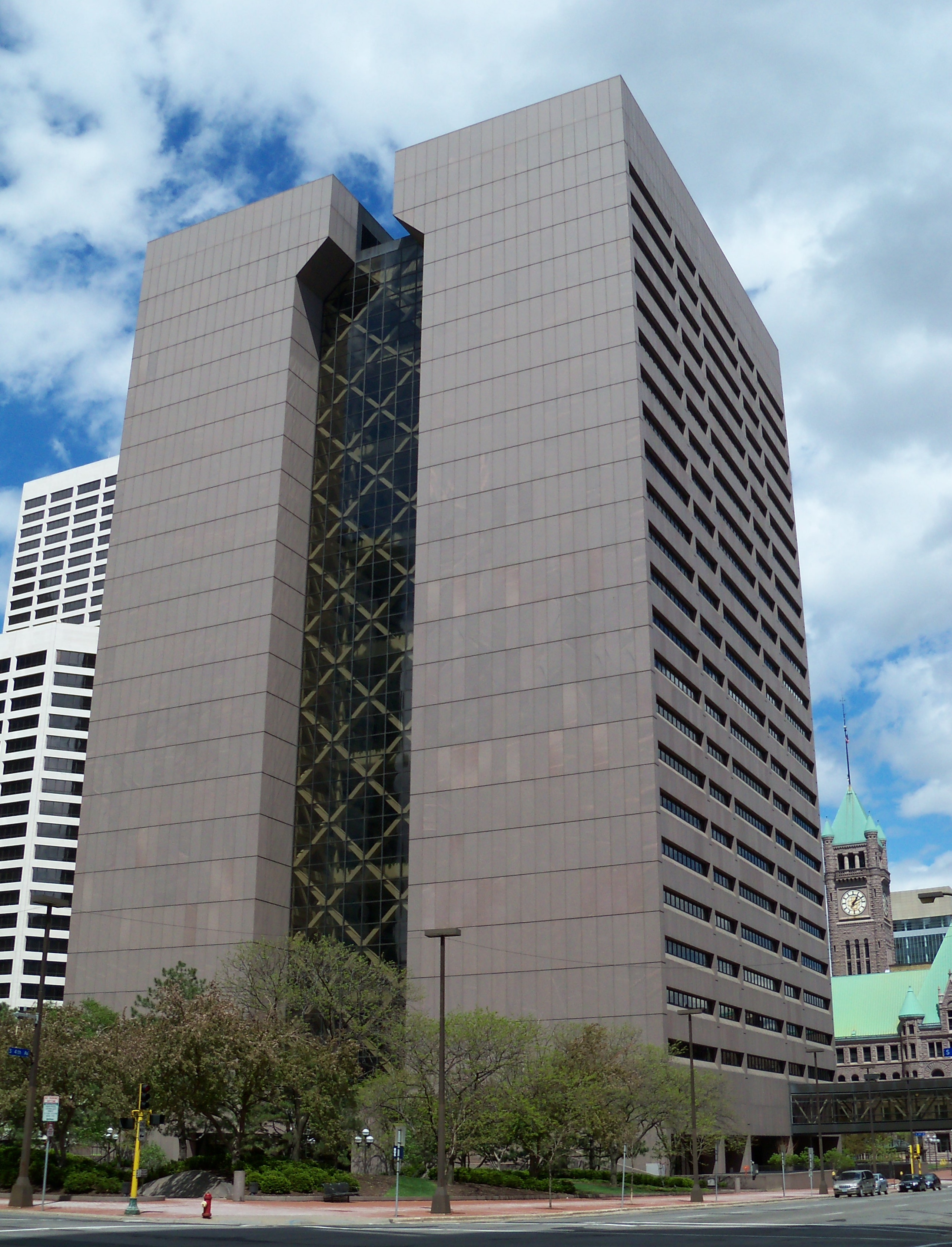 Hennepin County Government Center in downtown Minneapolis, Minnesota, USA.